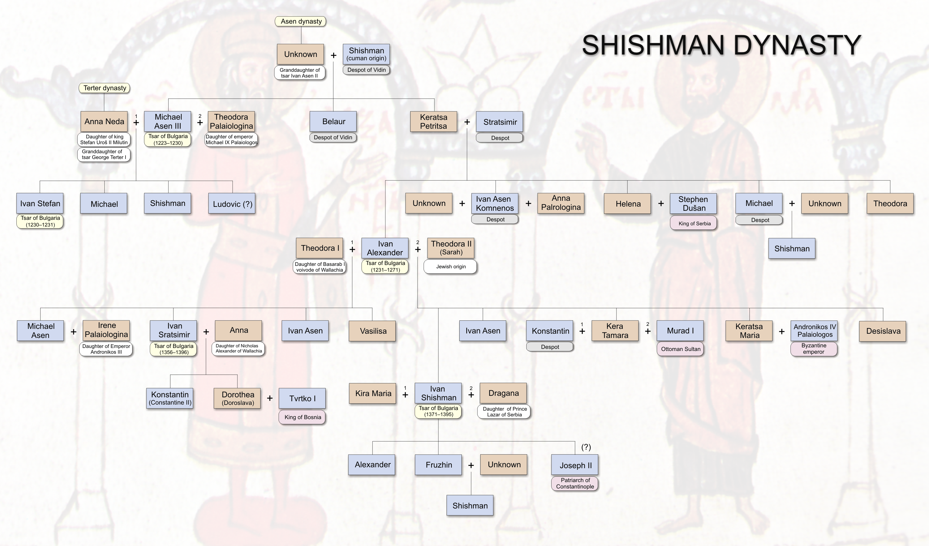 Genealogy of the Shishman dynasty, rulers of the Second Bulgarian Empire.